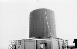 J/FPS-1 radar, Japan ASDF OHTAKINEYAMA SUB BASE